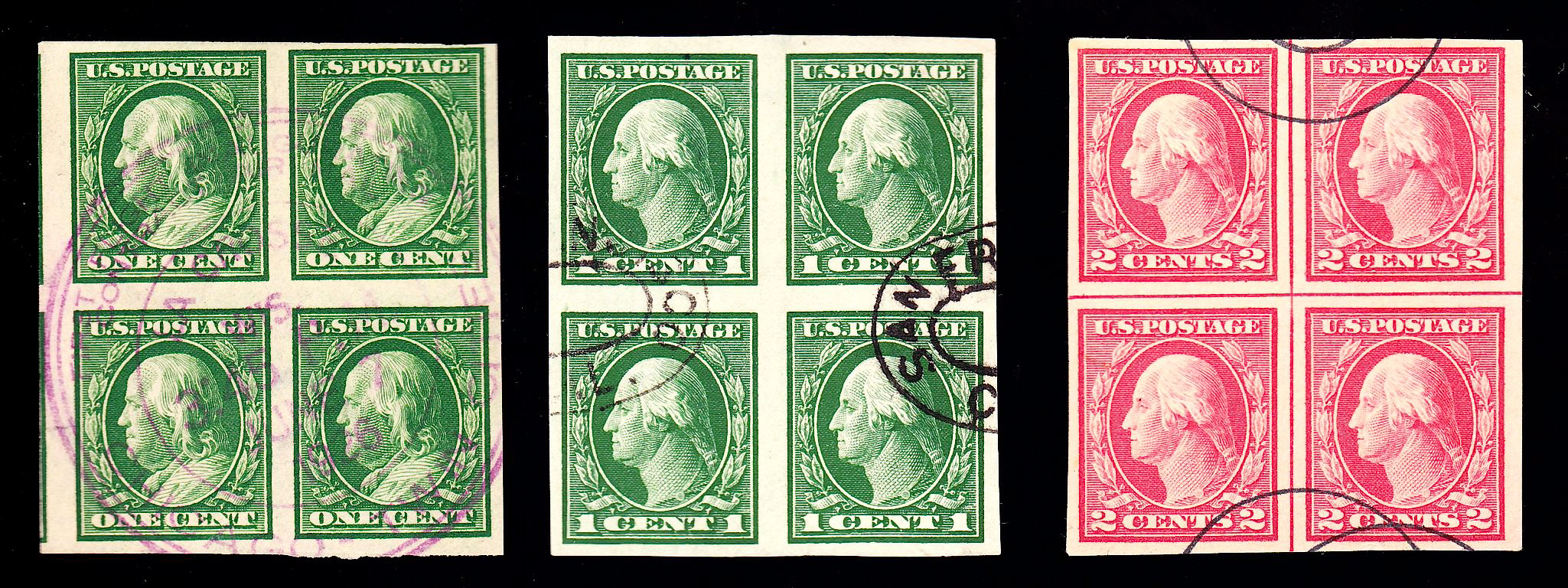 US Postage stamps, Washington Franklin Issues, 3 imperforate blocks of 4: Franklin ONE CENT, green, issue of 1908Washington, 1-CENT, green, issue of 1912Washington, 2-CENTS, red, issue of 1912